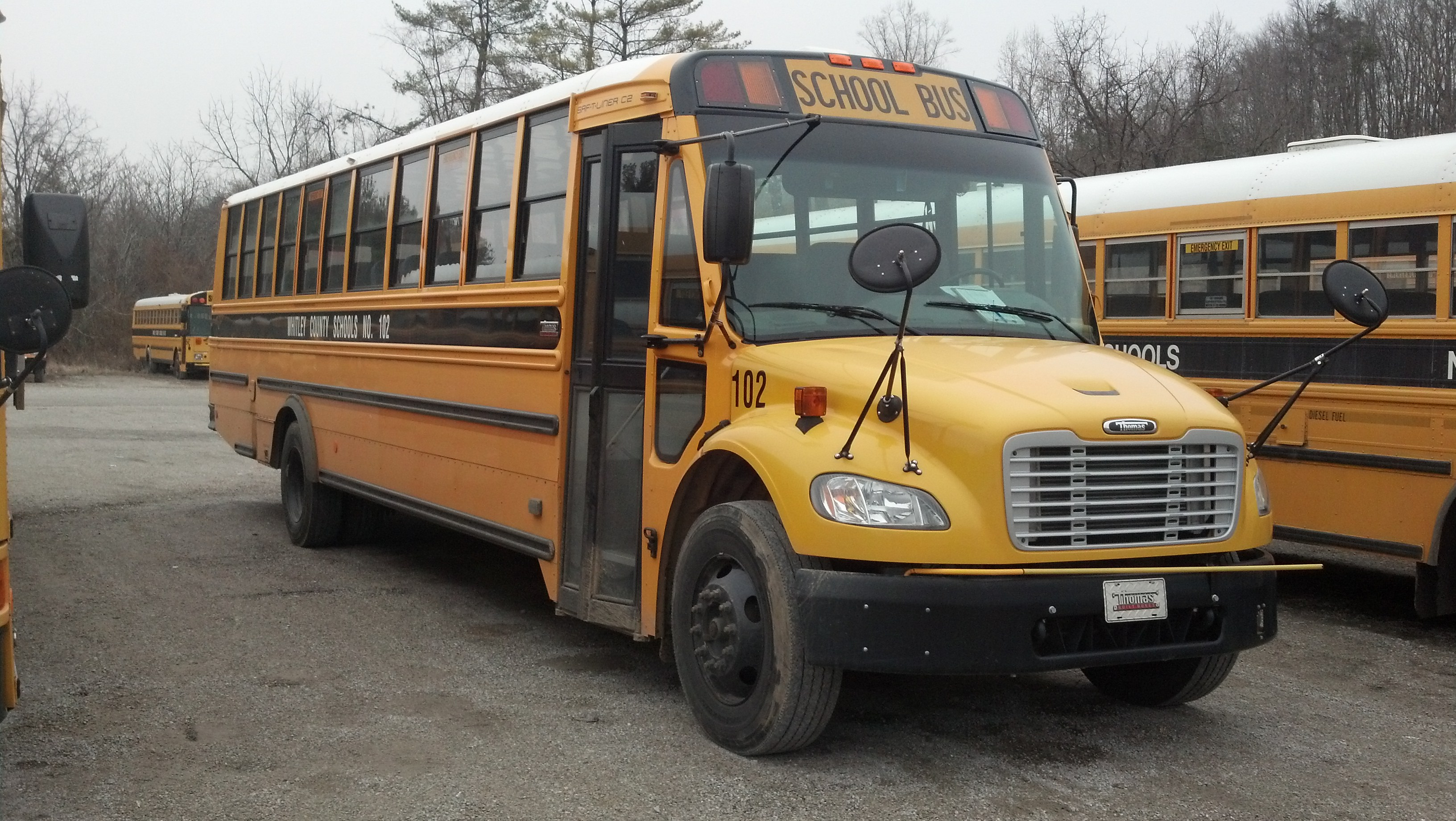 We have very few of these in our fleet. I believe we have 4 of them. Other than the fact that they look a little different than most of our buses, they seem to be alright.